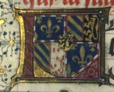 Philip III Duke of Burgundy